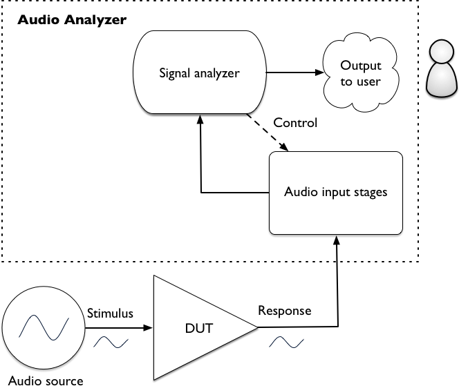 Diagram of audio analyzer elements and device under test in open loop (uncontrolled source) configuration